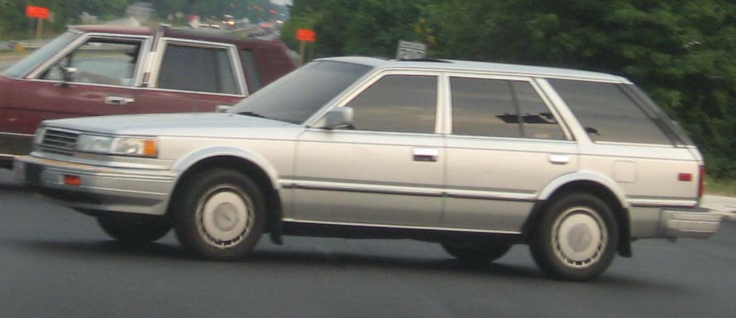 1987-1988 Nissan Maxima photographed in USA.